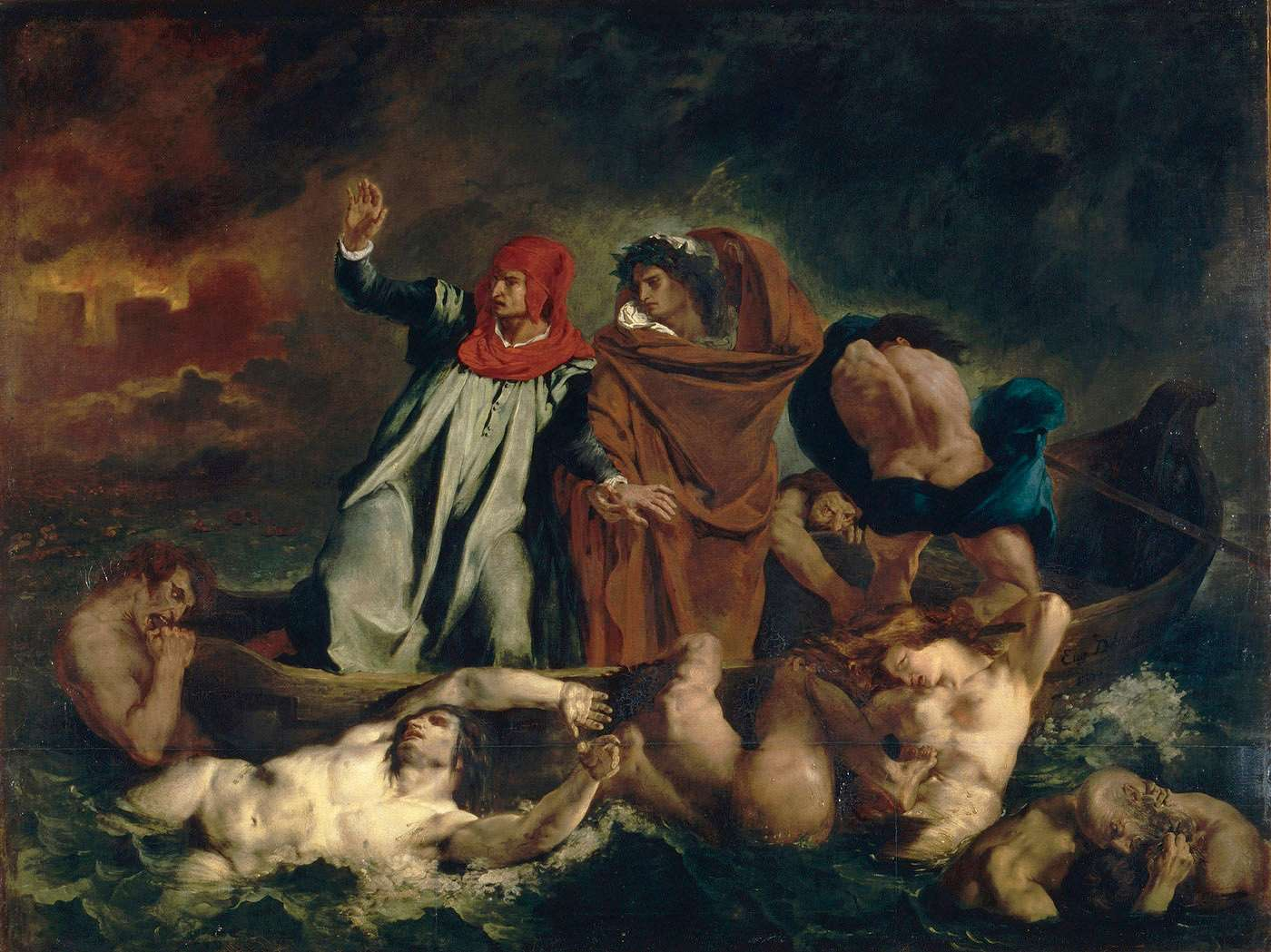 Dante and Virgil in Hell, Painting of Dante's »Divine Comedy, Inferno«, 8. Singing